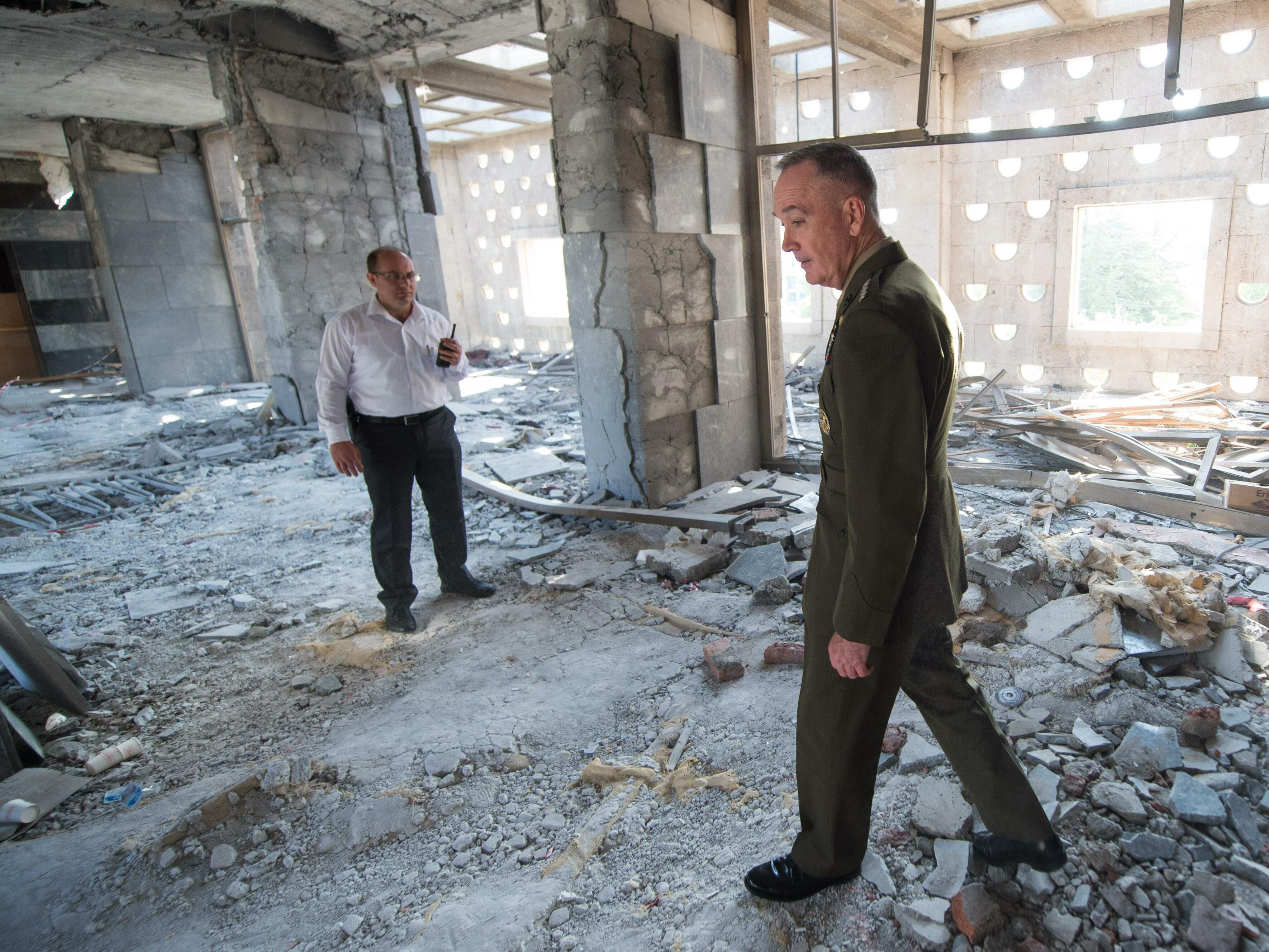 Marine Corps Gen. Joe Dunford, chairman of the Joint Chiefs of Staff, tours parts of the Turkish Grand National Assembly that were destroyed during the failed July 15 coup attempt in Ankara, Turkey, Aug. 1, 2016.